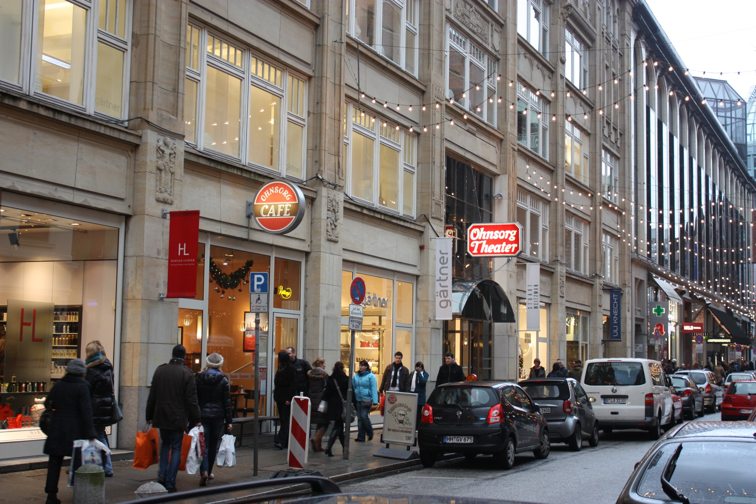 Hamburg, the Ohnsorg theatre (former place)